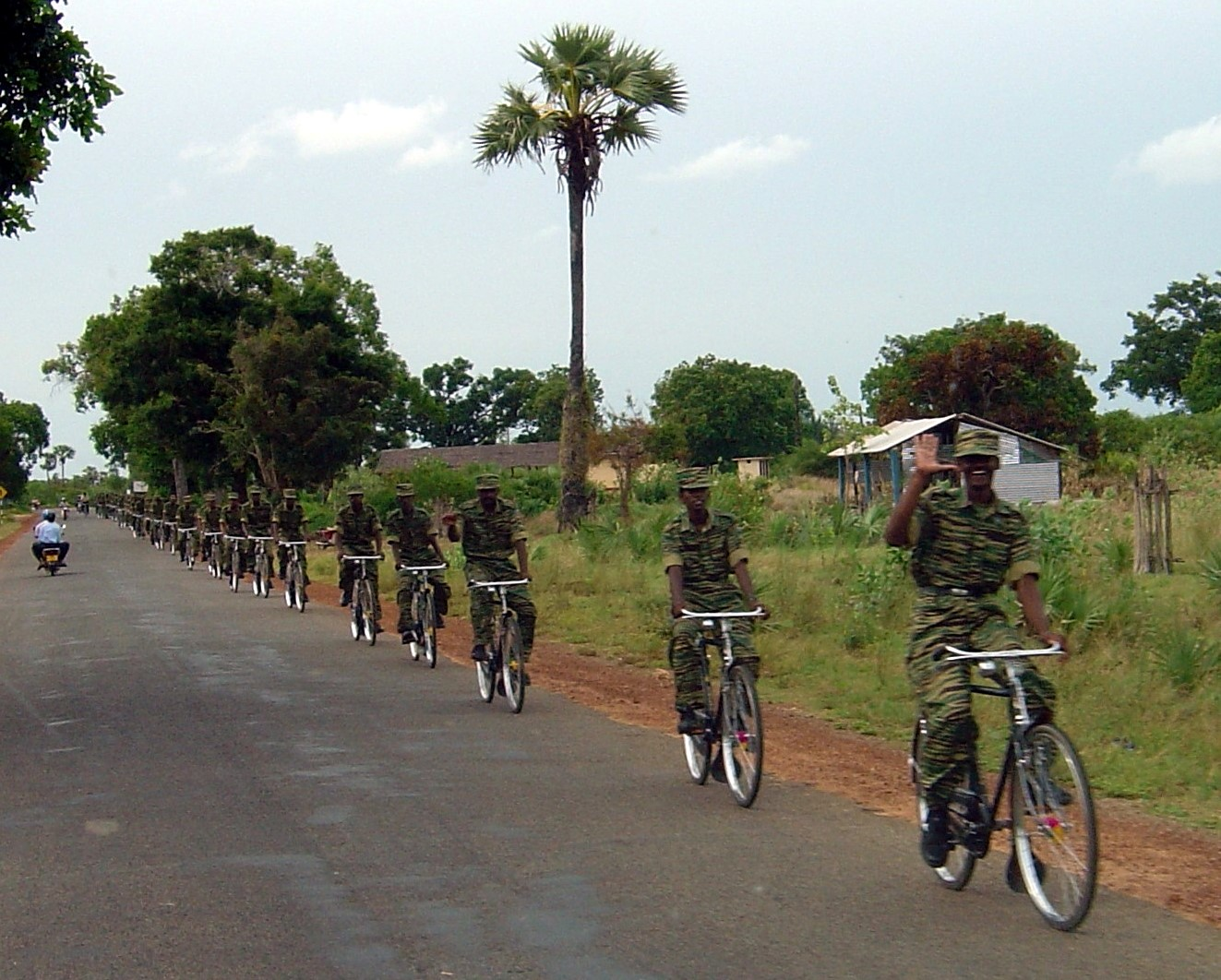 I took the picture in 2004, it shows a LTTE bike platoon north of Kilinochi. from en.wiki [1]